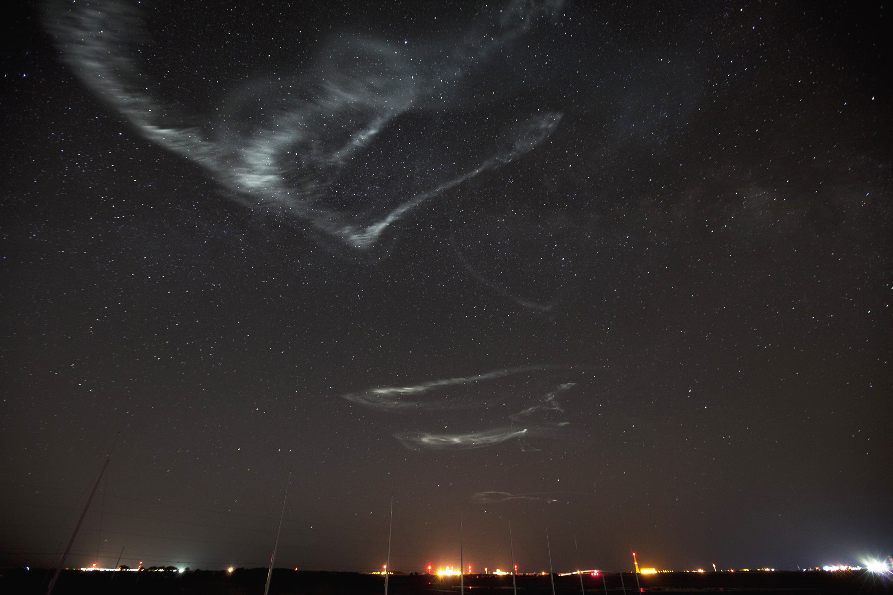 An artificial cloud is shown over the Atlantic Ocean as part of a sounding rocket mission in 2012 from NASA's Wallops Flight Facility in Virginia. : Nasa description : A NASA sounding rocket to be launched from the Poker Flat Research Range, Alaska, between February 13 and March 3, 2017, will form white artificial clouds during its brief, 10-minute flight. The rocket is one of five being launched January through March, each carrying instruments to explore the aurora and its interactions with Earth’s upper atmosphere and ionosphere. Scientists at NASA's Goddard Space Center in Greenbelt, Maryland, explain that electric fields drive the ionosphere, which, in turn, are predicted to set up enhanced neutral winds within an aurora arc. This experiment seeks to understand the height-dependent processes that create localized neutral jets within the aurora. For this mission, two 56-foot long Black Brant IX rockets will be launched nearly simultaneously. One rocket is expected to fly to an apogee of about 107 miles while the other is targeted for 201 miles apogee. Only the lower altitude rocket will form the white luminescent clouds during its flight. During the flight, a vapor tracer cloud of trimethyl aluminum or TMA will be deployed to allow scientists on the ground to be able to visually track the winds within the aurora. Trimethyl aluminum reacts with oxygen when exposed to the atmosphere. The products of the reaction are aluminum oxide, carbon dioxide, and water vapor, which also occur naturally in the atmosphere. The amount of TMA used in the test is much less than that used in a typical July 4 fireworks display. It will be released at altitudes of 60-100 miles high and poses absolutely no hazard to the community. Read more